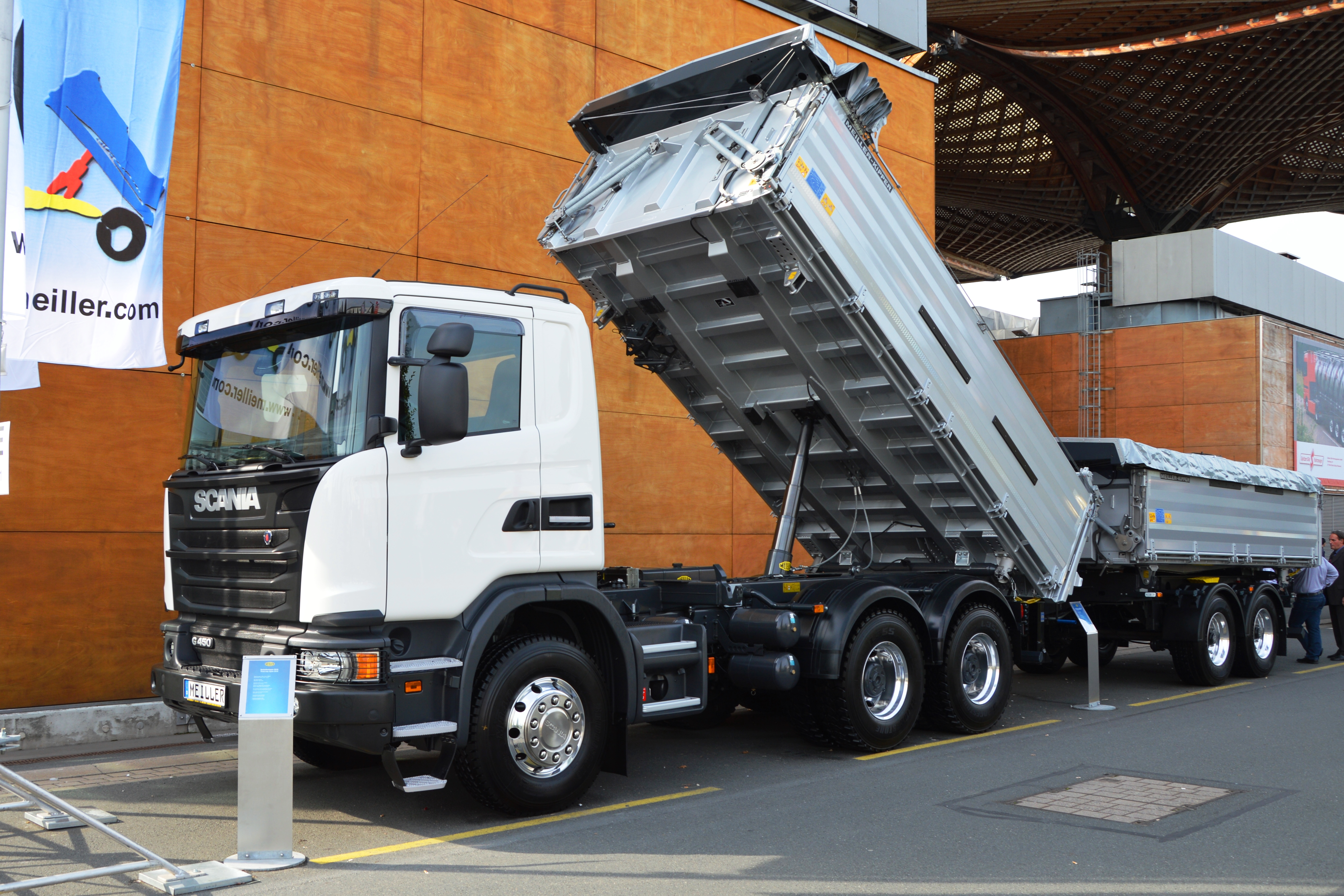 Meiller three-way tipper D316 on Scania G 450. Aluminium side walls. Remote control. Electric sliding tarpaulin. Foldable underride guard. Photo taken at exhibition IAA 2014 in Hanover, Germany.